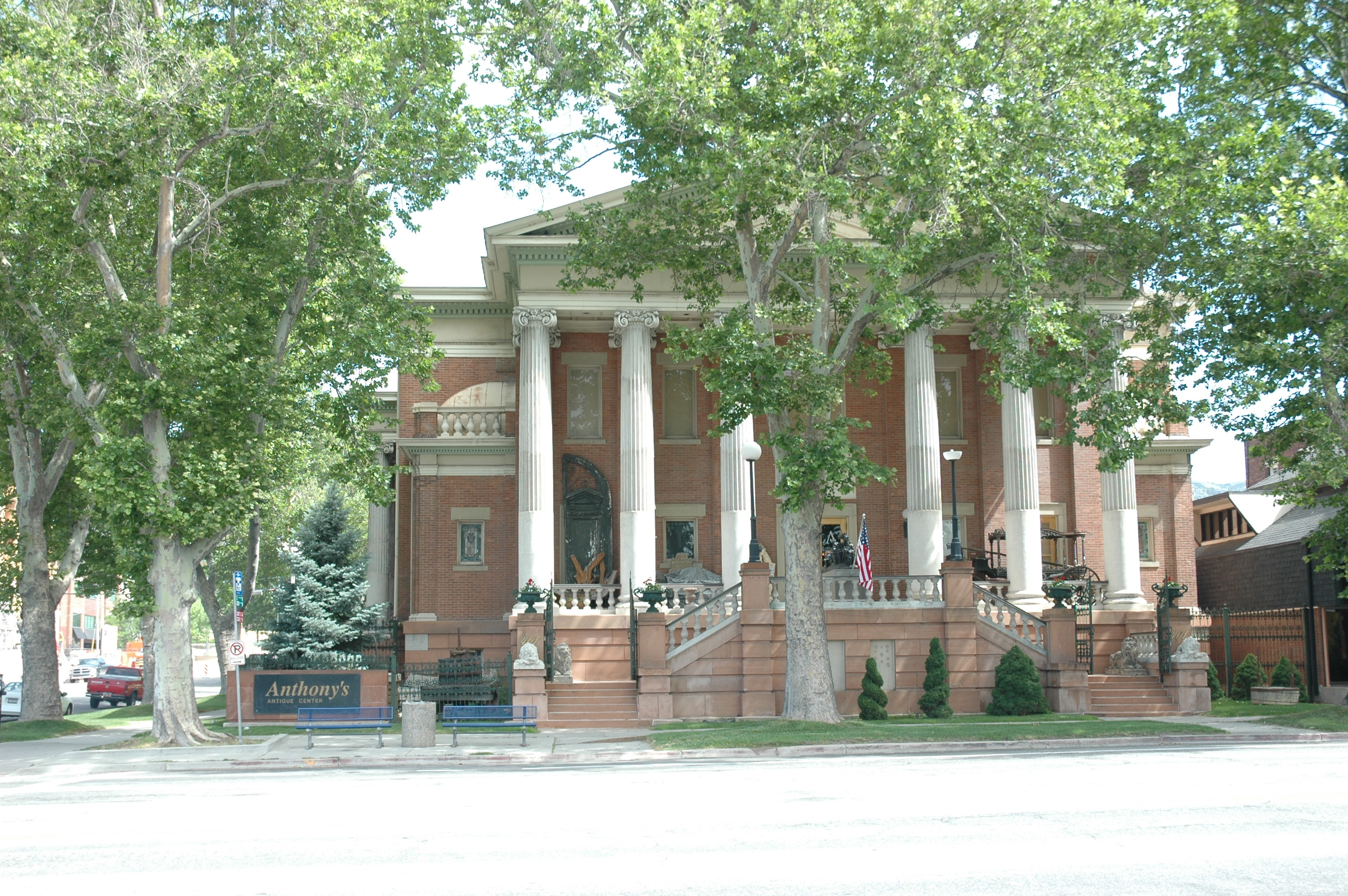 Immanuel Baptist Church, a historic church building in Salt Lake City, Utah, United States.